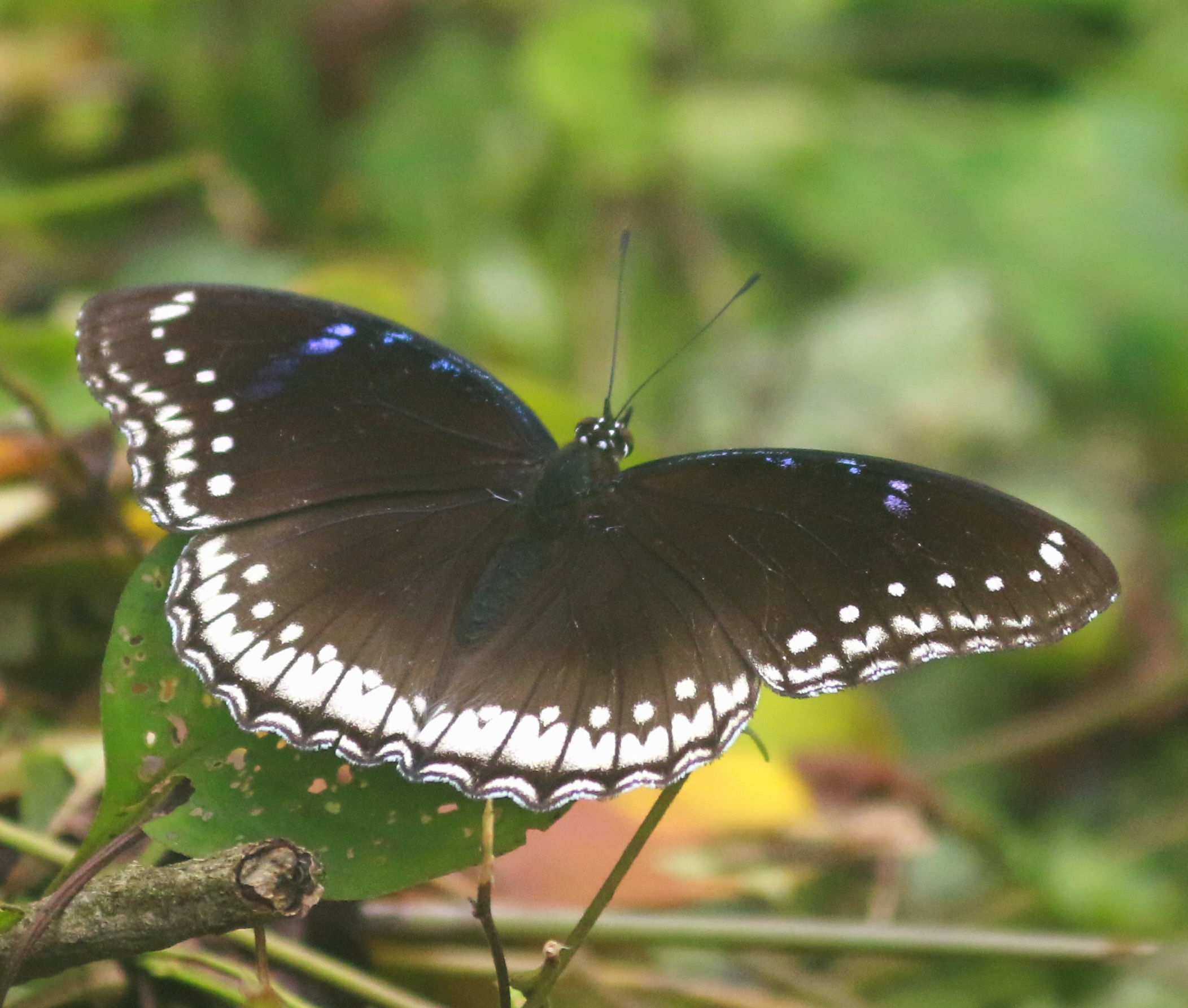 Hypolimnas bolina, great eggfly female